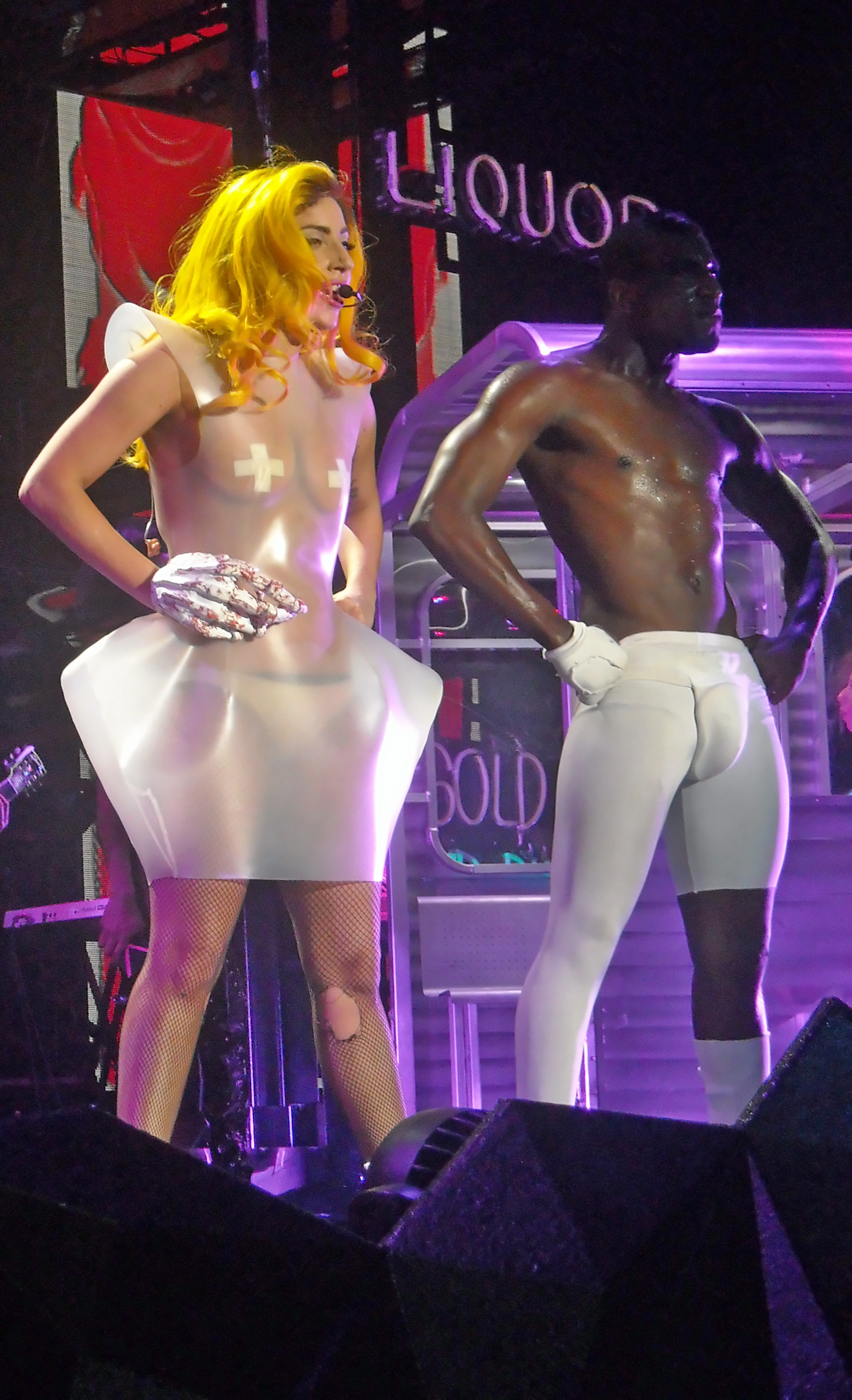 The Monster Ball Tour, Budapest, Hungary